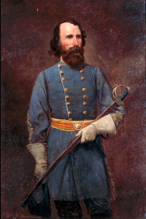 Portrait in oils of Ambrose Powell Hill by William Ludwell Sheppard, 1898. Oil on canvas: Object Number: 1946.39